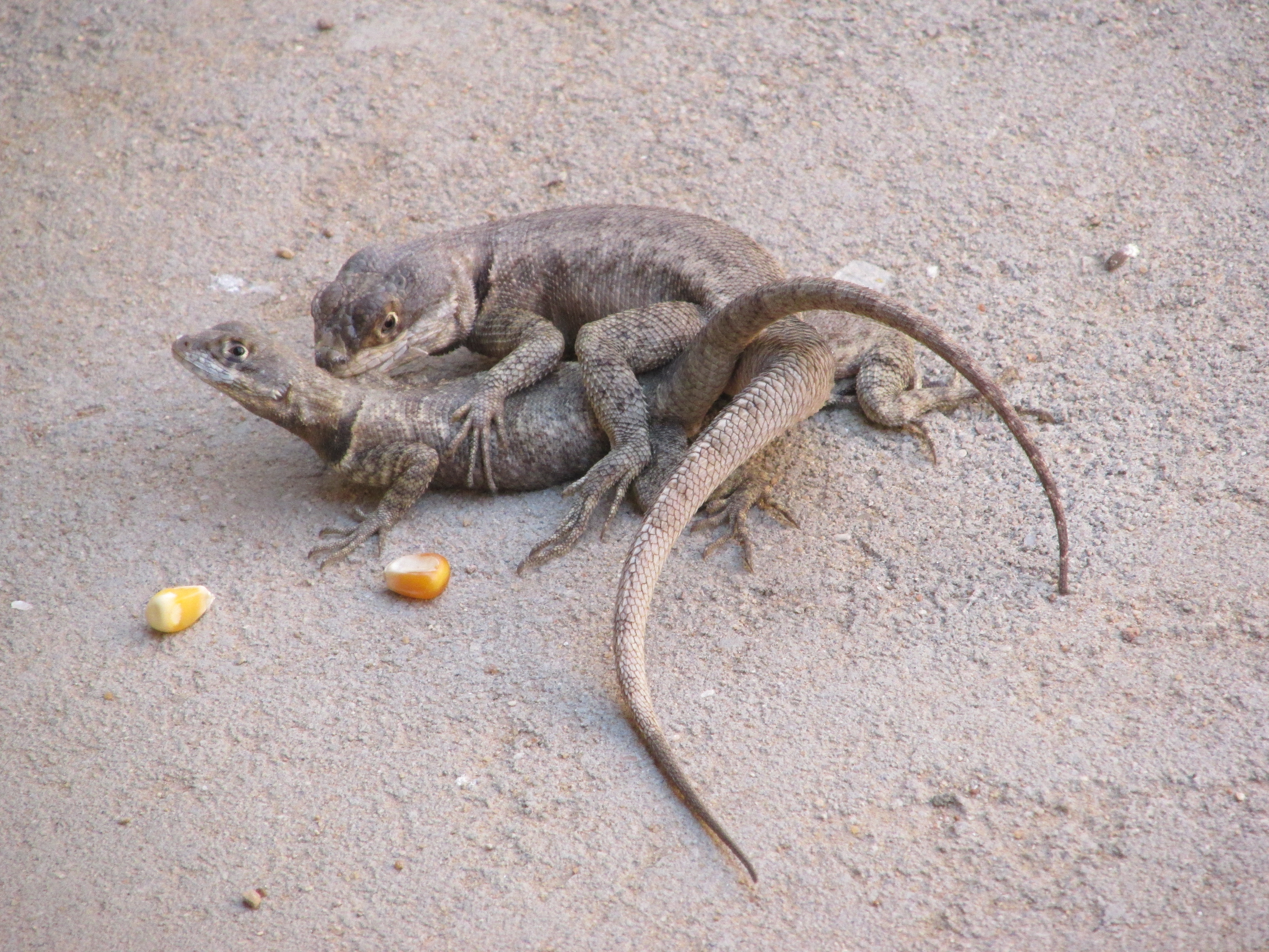 Couple of lizards of the genus Tropidurus during intercourse (copula, copulation, coupling). Image captured in the State of Paraíba, Brazil. Probably a Tropidurus oreadicus or perhaps a Tropidurus hispidus. A rare photo of the breeding moment of these reptiles popularly known as calango or lagartixa in Brazil.